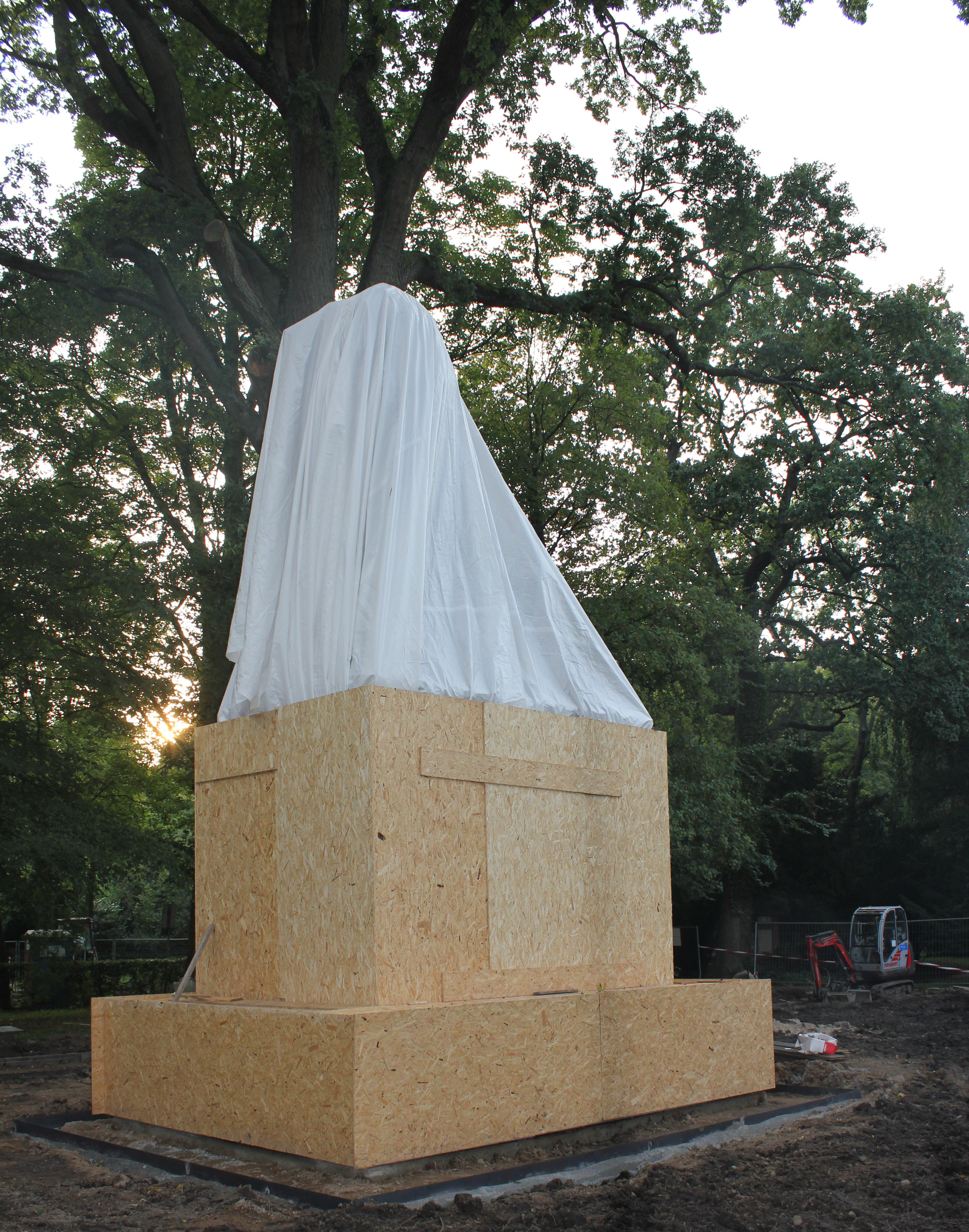 Wraped Flensburg Lion or Isted Lion in Flensburg placed on the Alter Friedhof (Old Cemetery)